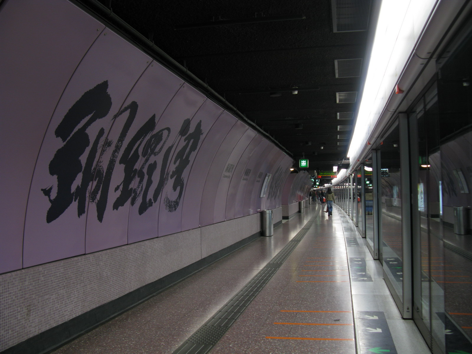 Platform 1 of Causeway Bay station